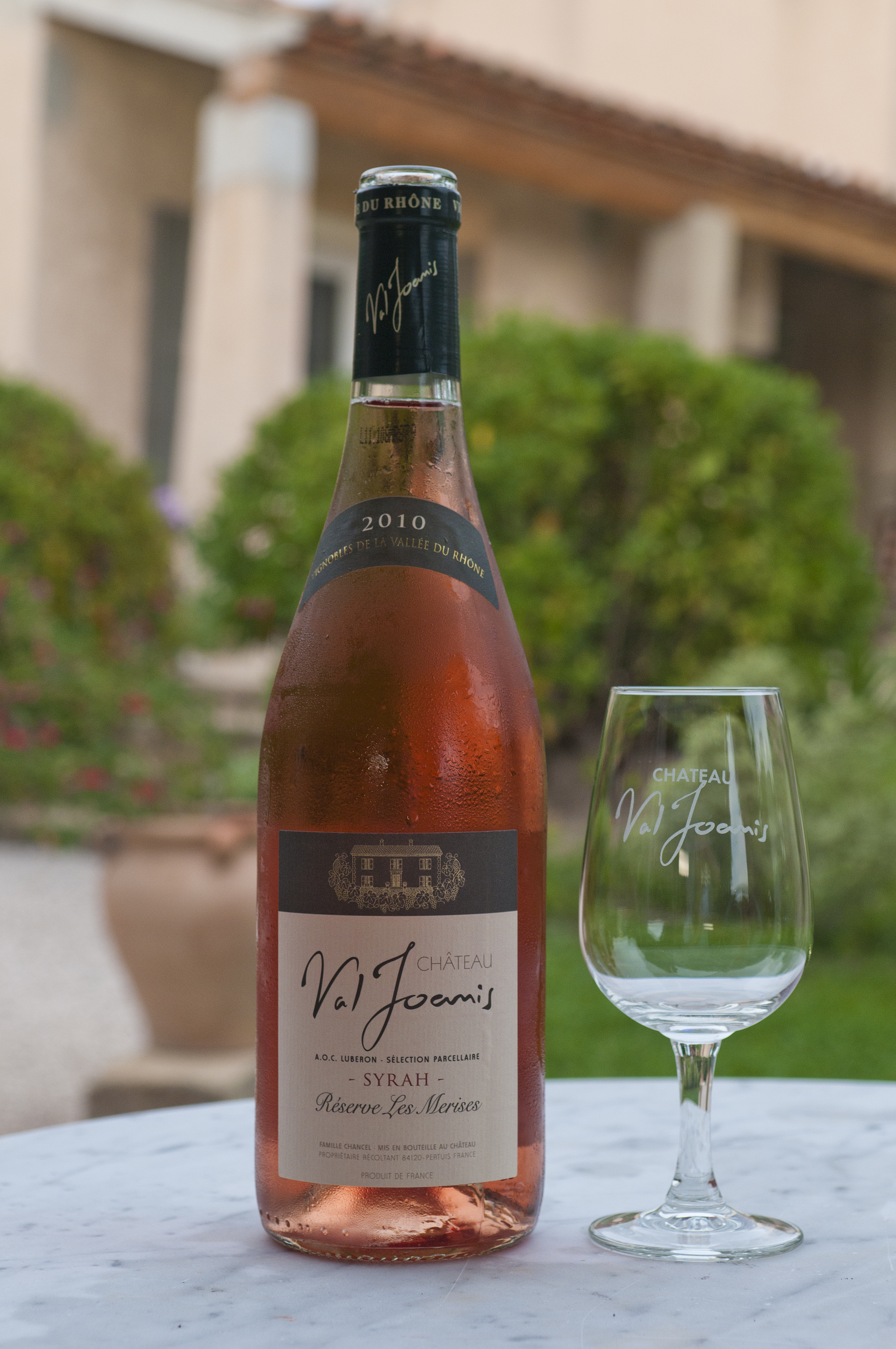 French Syrah wine from the Provence/Rhone wine region of Cotes du Luberon.